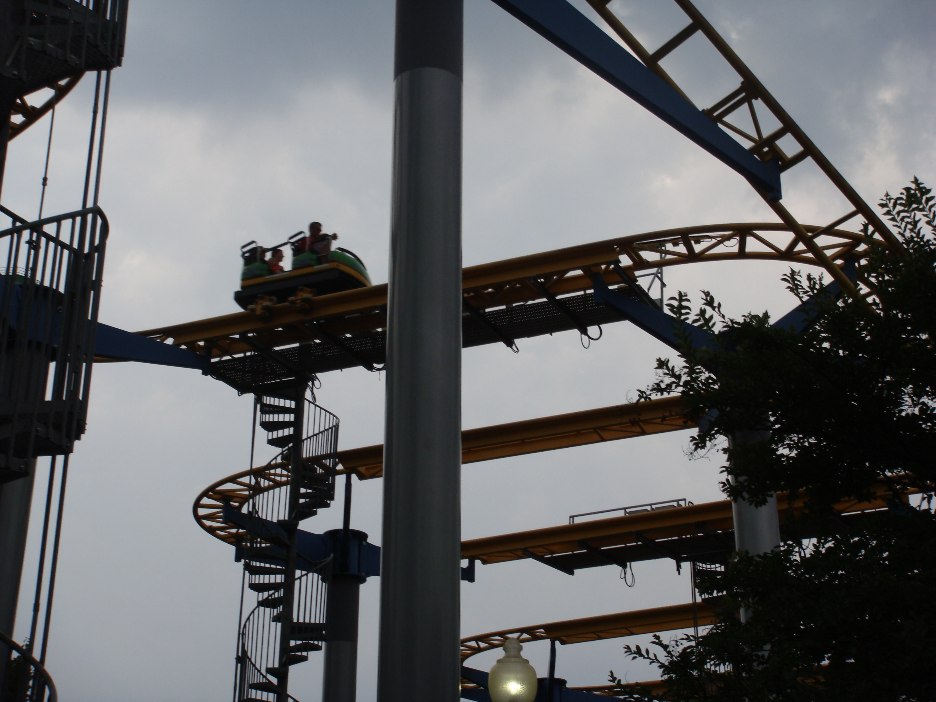 Ricochet at Kings Dominion amusement park.